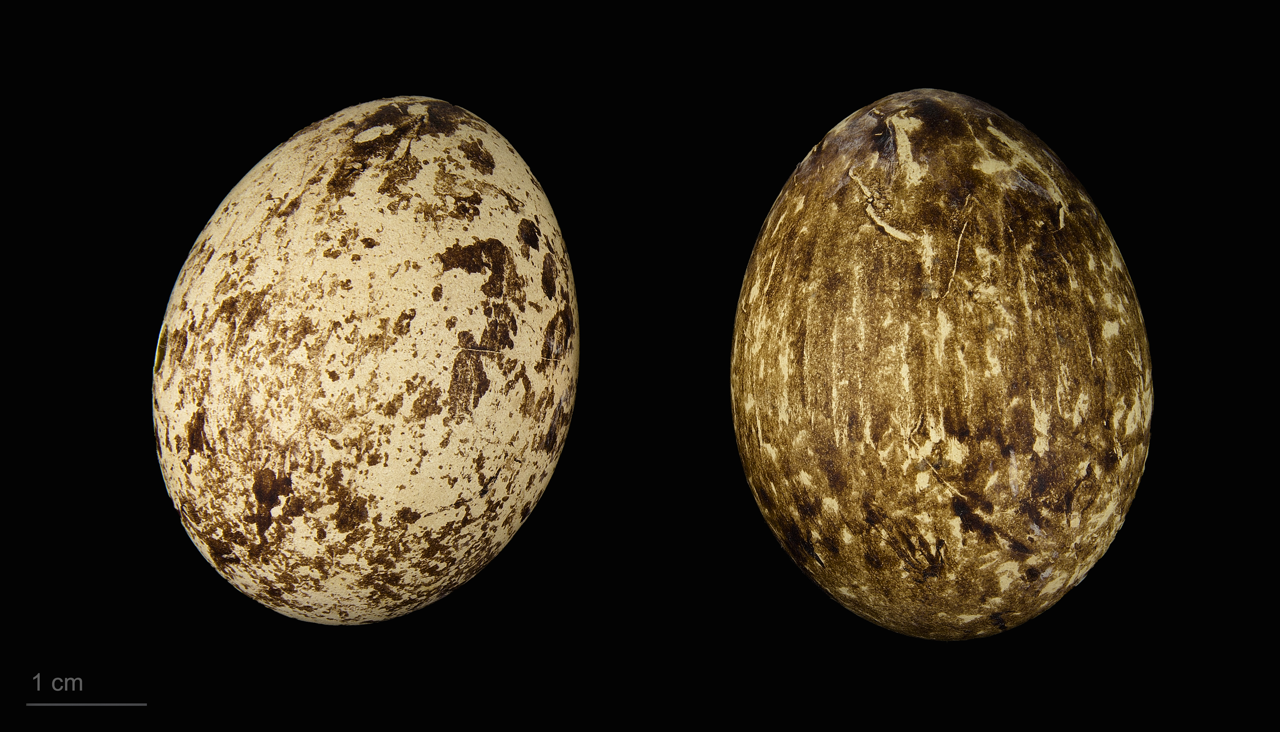 Eggs of black-winged kite Two specimens of the same spawn ; collection of Jacques Perrin de Brichambaut.